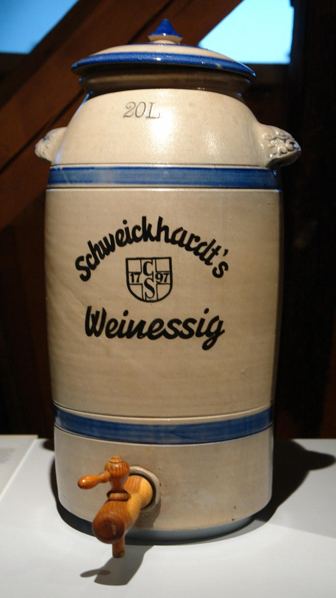 20 liter clay pot for Schweickhardt's vinegar in the Museum of Tübingen (Germany)